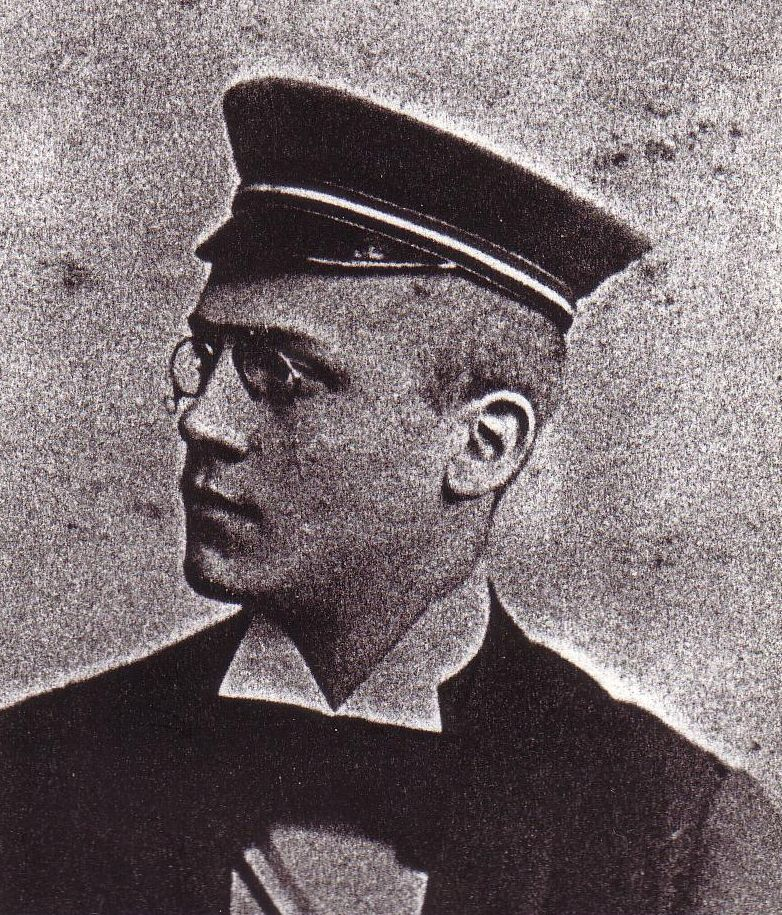 Photographic portrait of Hanns Heinz Ewers